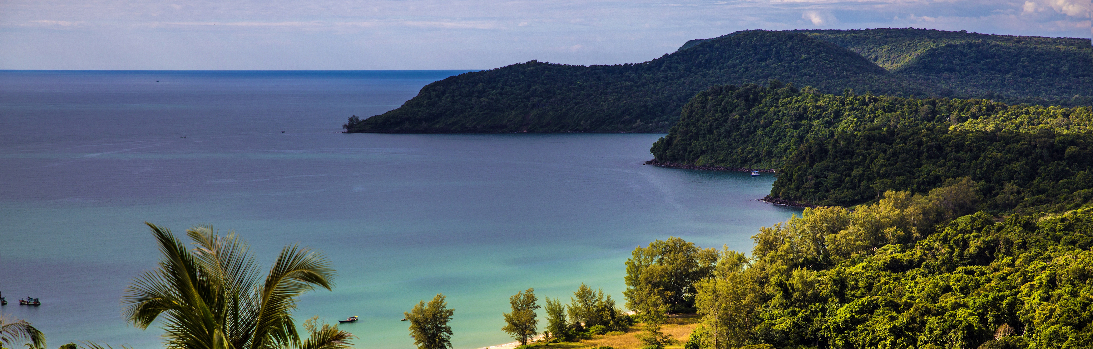 panorama image of Koh Rong Sanloem's,west coast shot from the light-house in the south of the island, Cambodia 2014